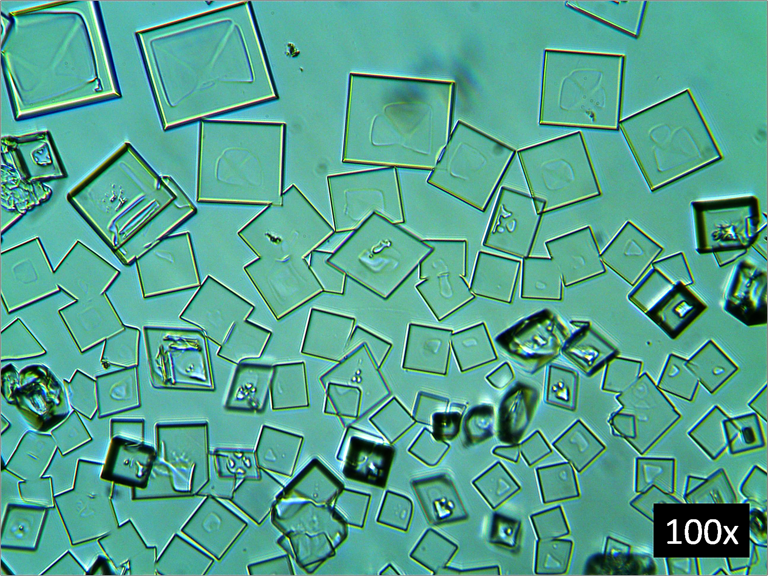 Microcrystals of cesium perchlorate CsClO4, obtained by microcrystallography. For crystals, diluted solutions of cesium nitrate and sodium perchlorate were used. Microcrystallographic analysis consists in studying the shape, color and size of the crystals formed between the test substance and the reagent by which an unknown substance or ion can be identified. The photograph was taken by a computer using a digital camera for a microscope. Increase 100x